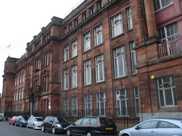 North Glasgow College This building wasn't always a seat of learning, originally being built in 1909 as the Administrative and Drawing Offices of the former North British Locomotive Company of Scotland. Directly across the street (to the left of picture) was the Hyde Park Works, where many railway engines were built. In a strange quirk of fate, after the old locomotive works were demolished and the site cleared, it is the college that is expanding, and a new campus is being built to replace the current red standstone building.